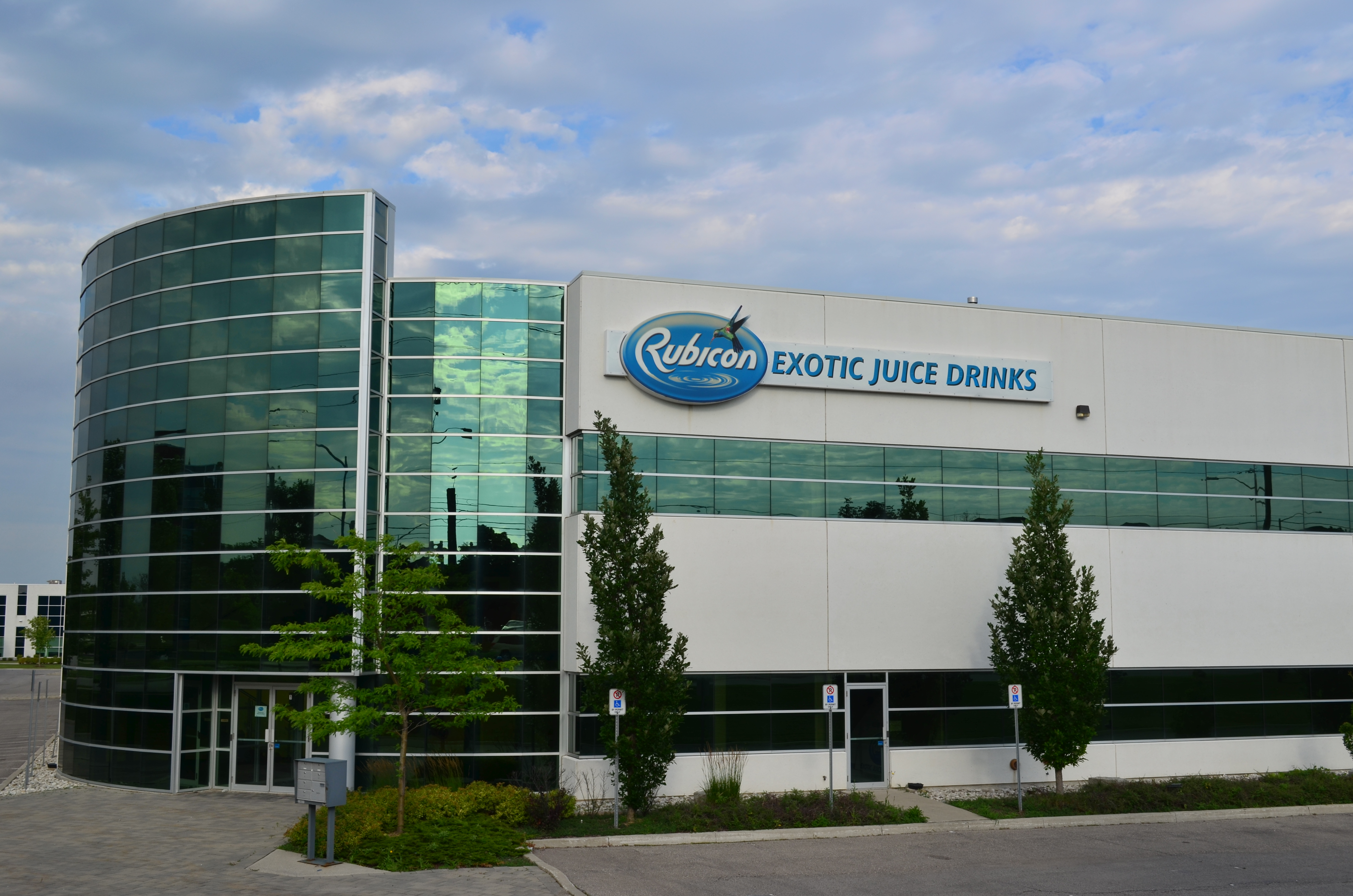 Rubicon Food Products Limited - 180 Brodie Drive, Richmond Hill, Ontario